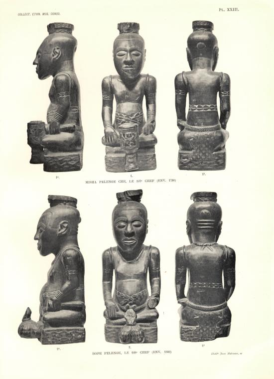 Misha Pelenge Che, the 107th chief (circa 1780) / Bope Pelenge, the 108th chief (circa 1800)